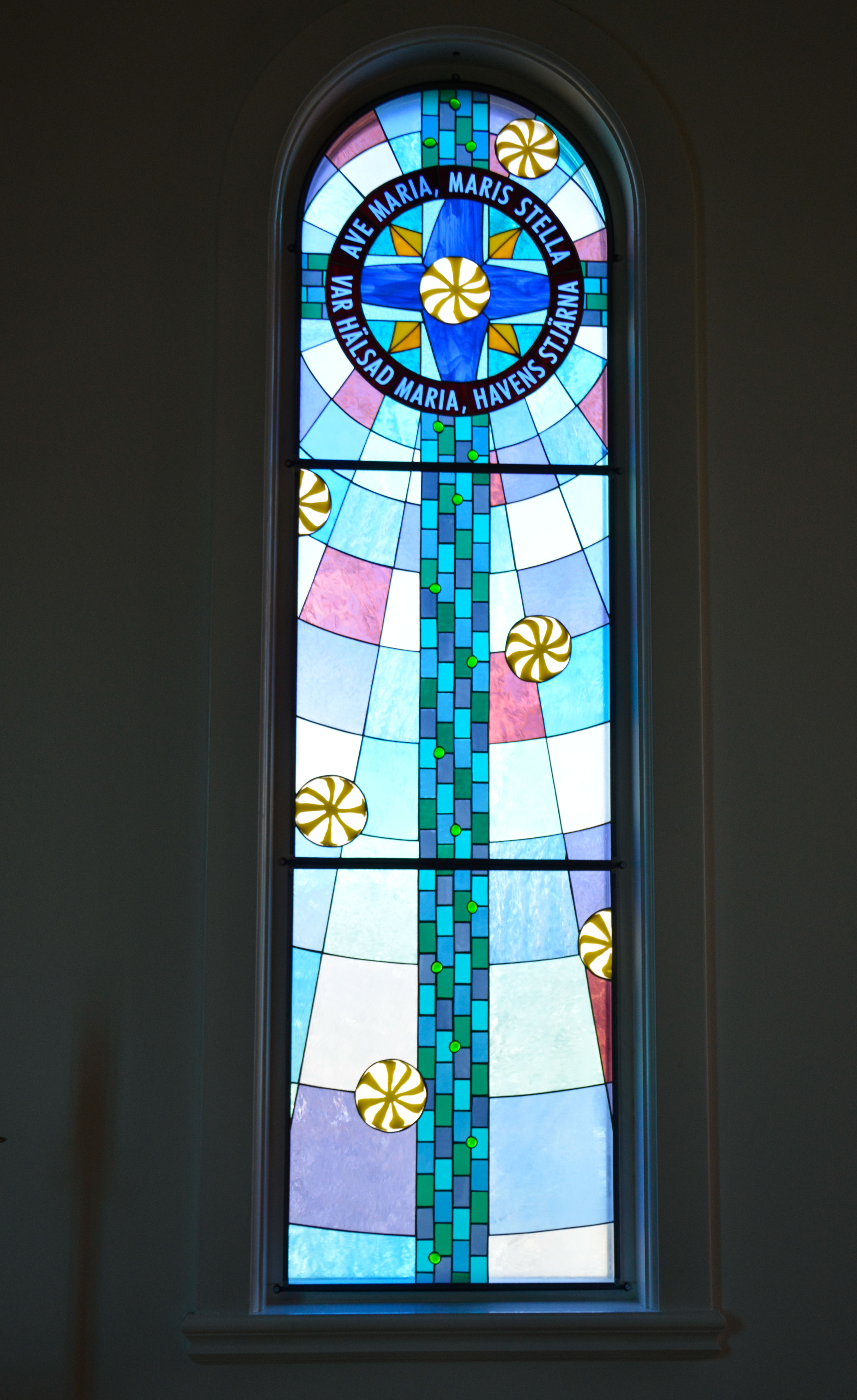 Emmaboda Church.Stained-glass windows by artist Erika Lagerbielke in 2000.